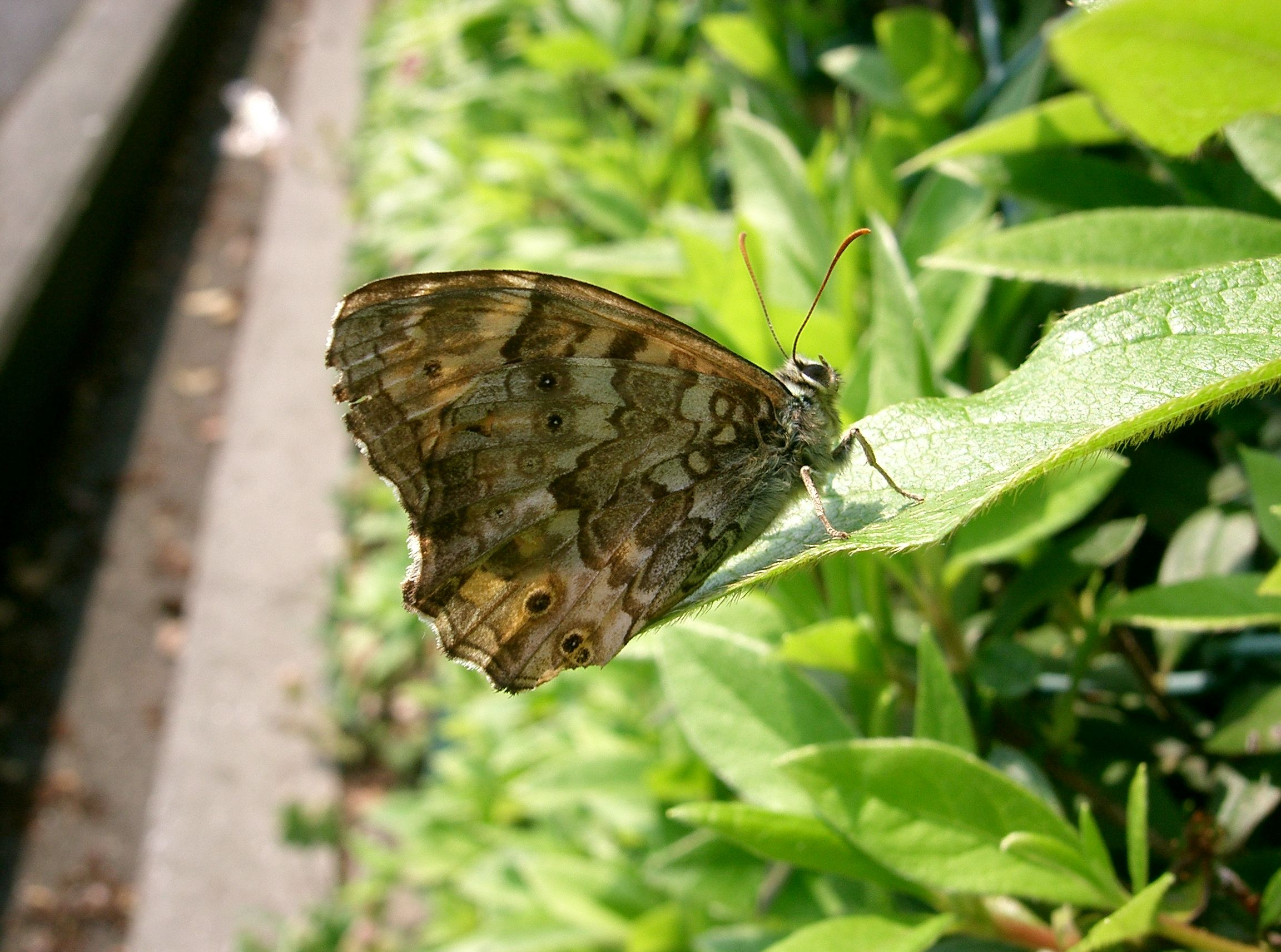 Neope niphonica